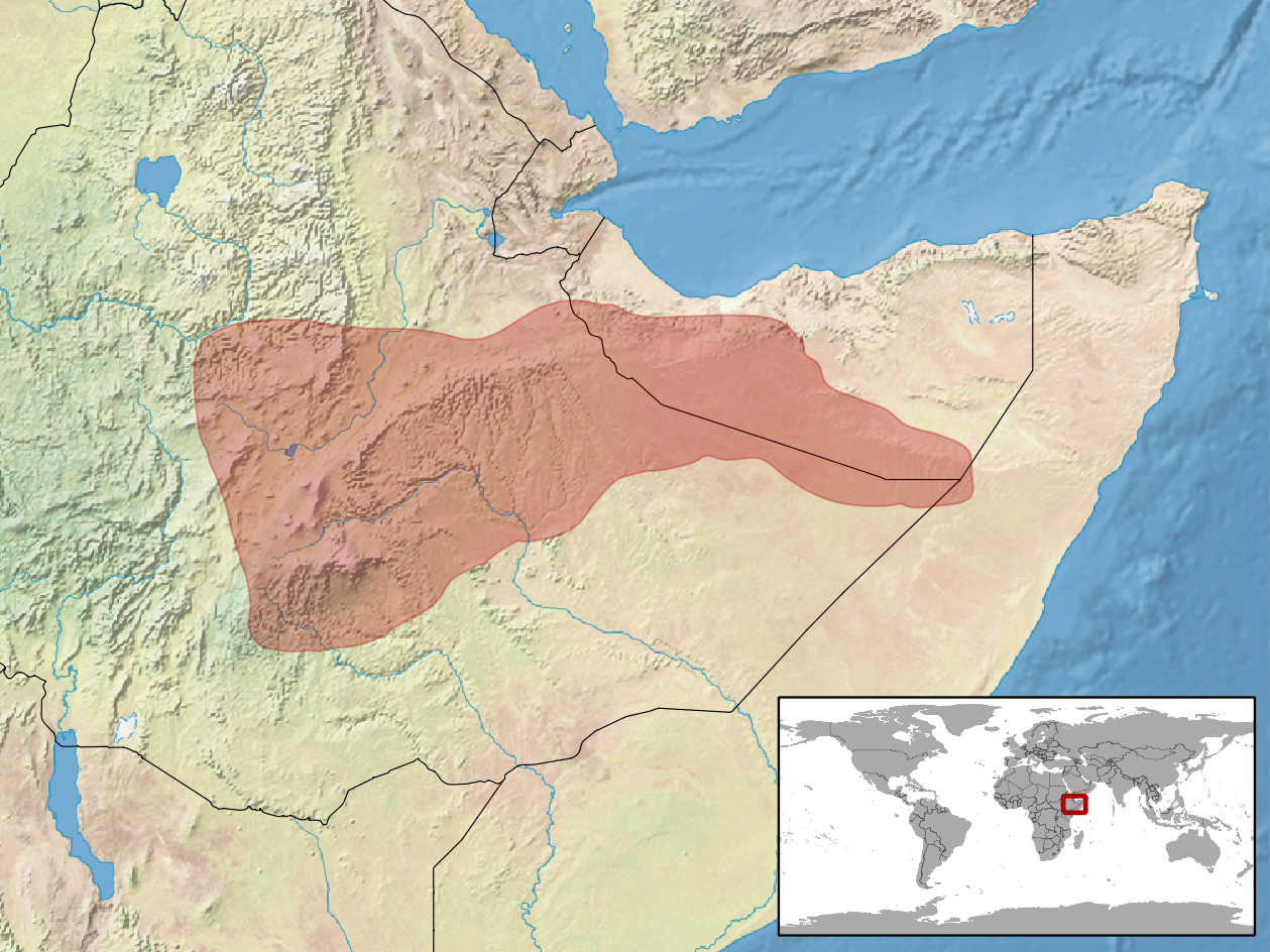 geographic distribution of Hemidactylus smithi (Native: Ethiopia; Somalia)